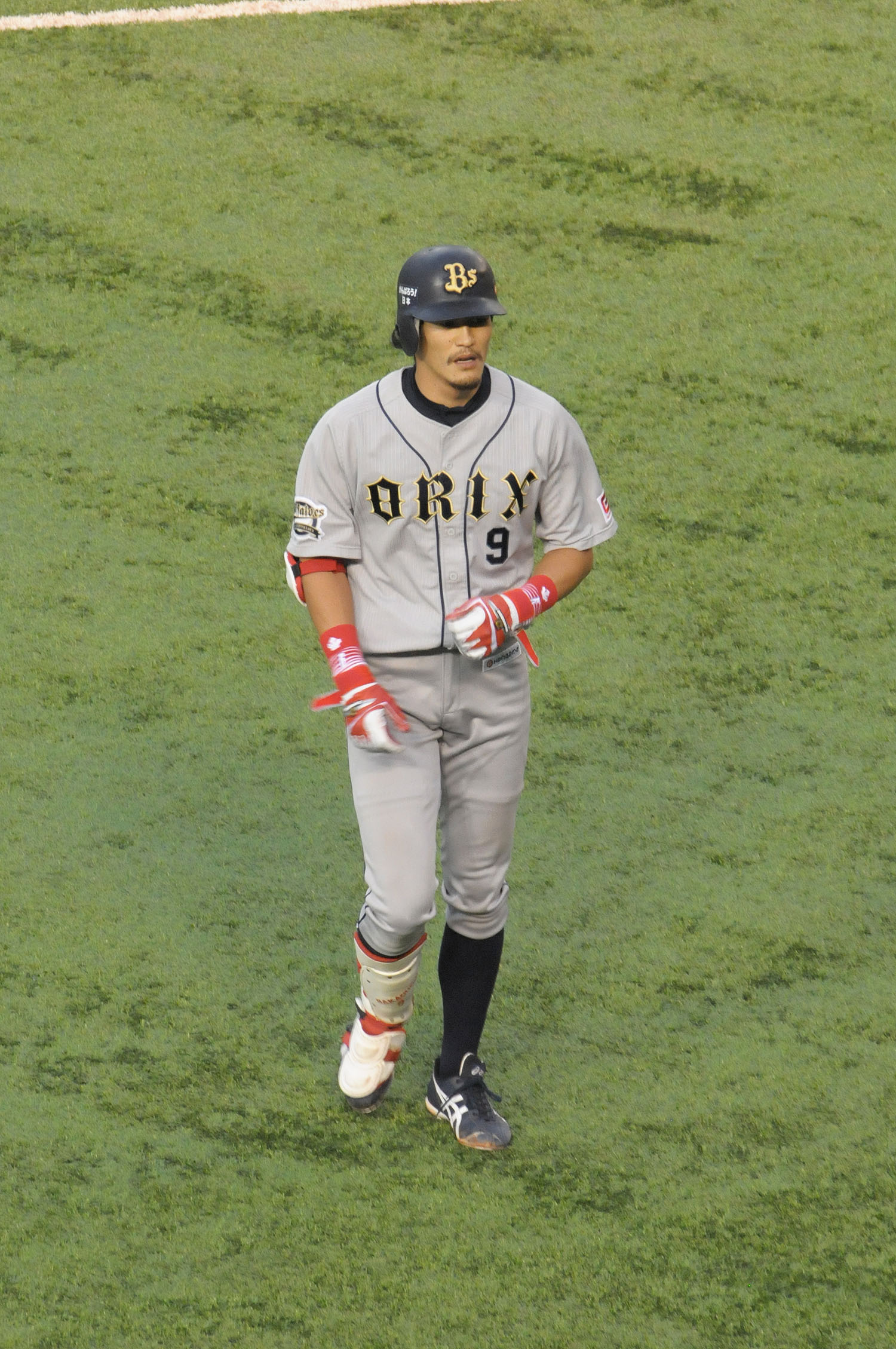 Tomotaka Sakaguchi, outfielder of the Orix Buffaloes, at Chiba Marine Stadium.